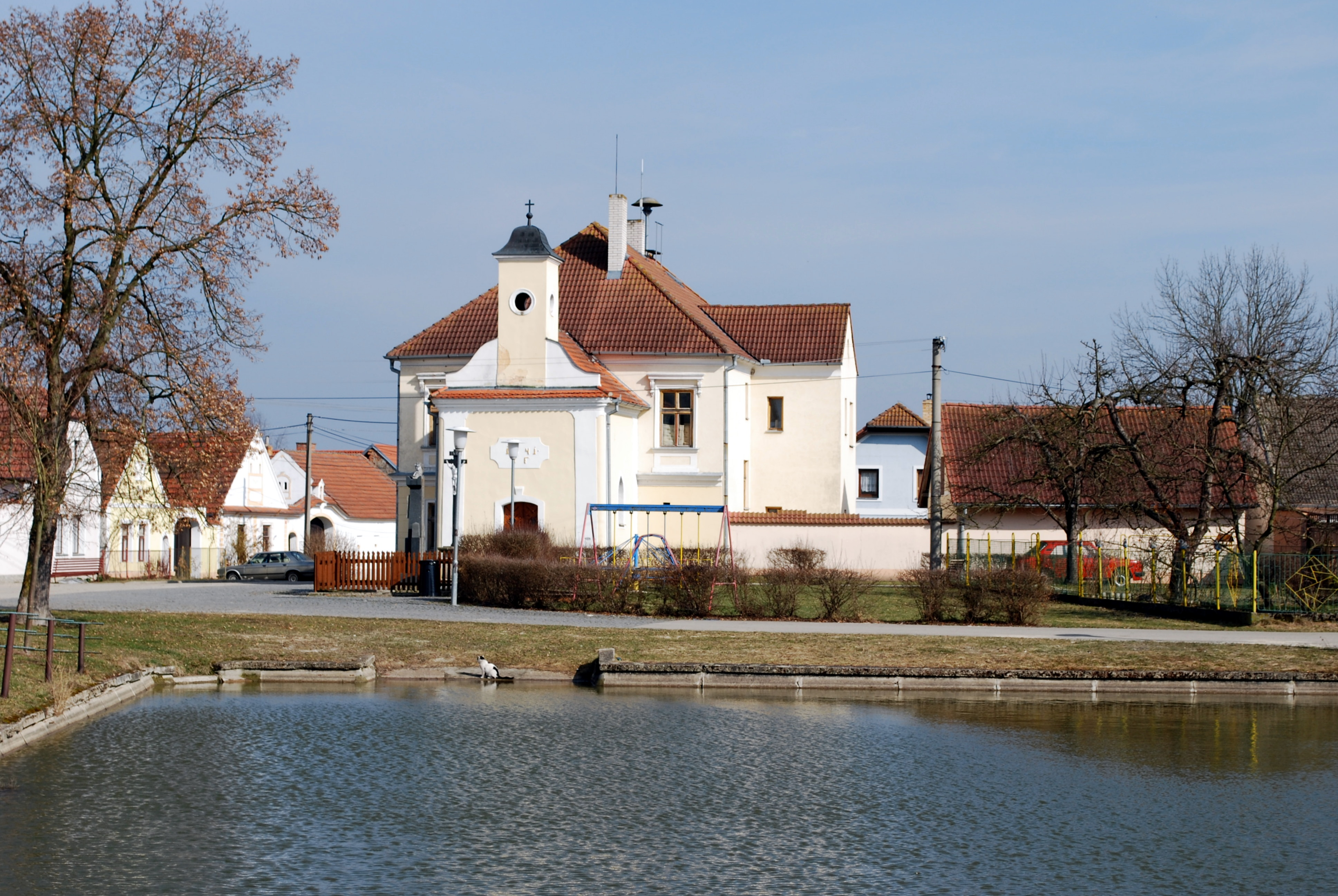 Záblatí village, Jindřichův Hradec District, Czech Republic. This photograph was taken within the scope of the 'Czech Municipalities Photographs' grant.